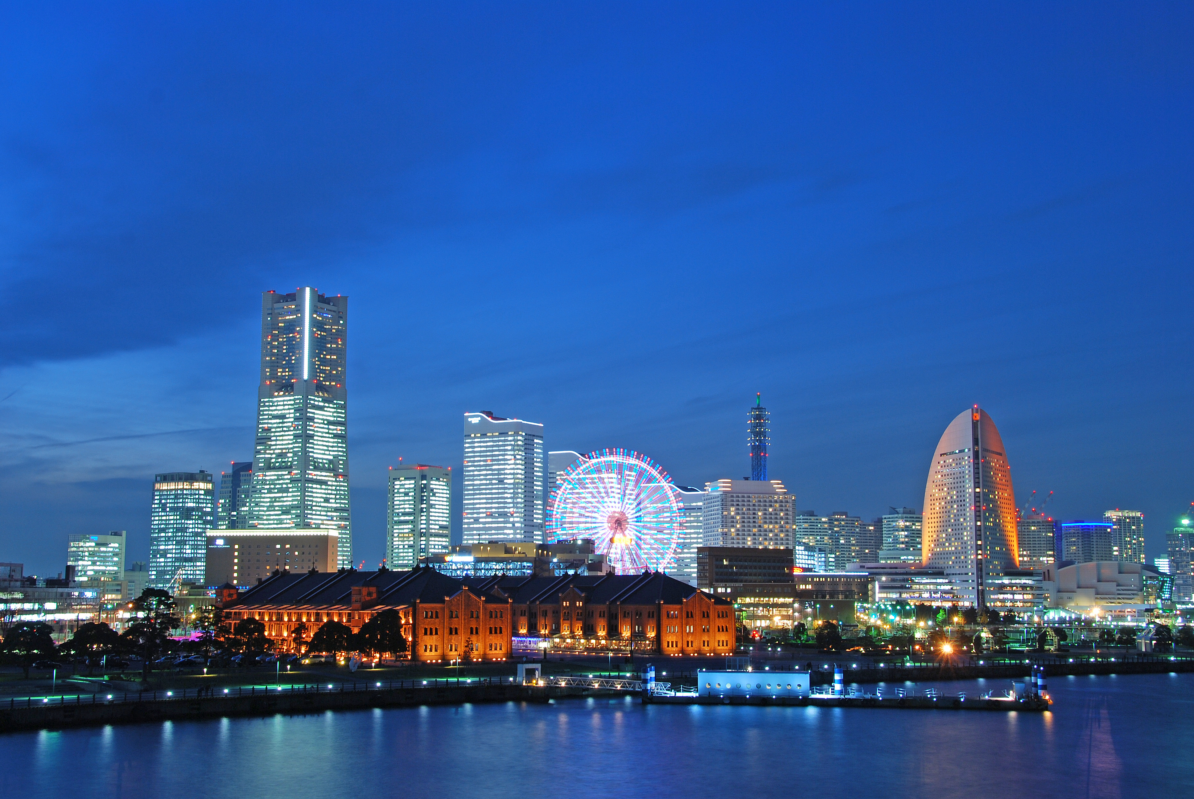 Took some Advil in the afternoon after waking up with a migraine-like sinusitis. I remembered that I still ought to shoot Mt. Fuji from the Yokohama port but then it was blocked with clouds. I took this 'tourist' shot ,yet again, of Minato Mirai instead. The D300 does this great job of flattening the contrast on the fly but too bad I had to settle with my D80's D-lighting PP for now. Minato Mirai, Yokohama City, Japan.[Minato Mirai] The Failure In Blue